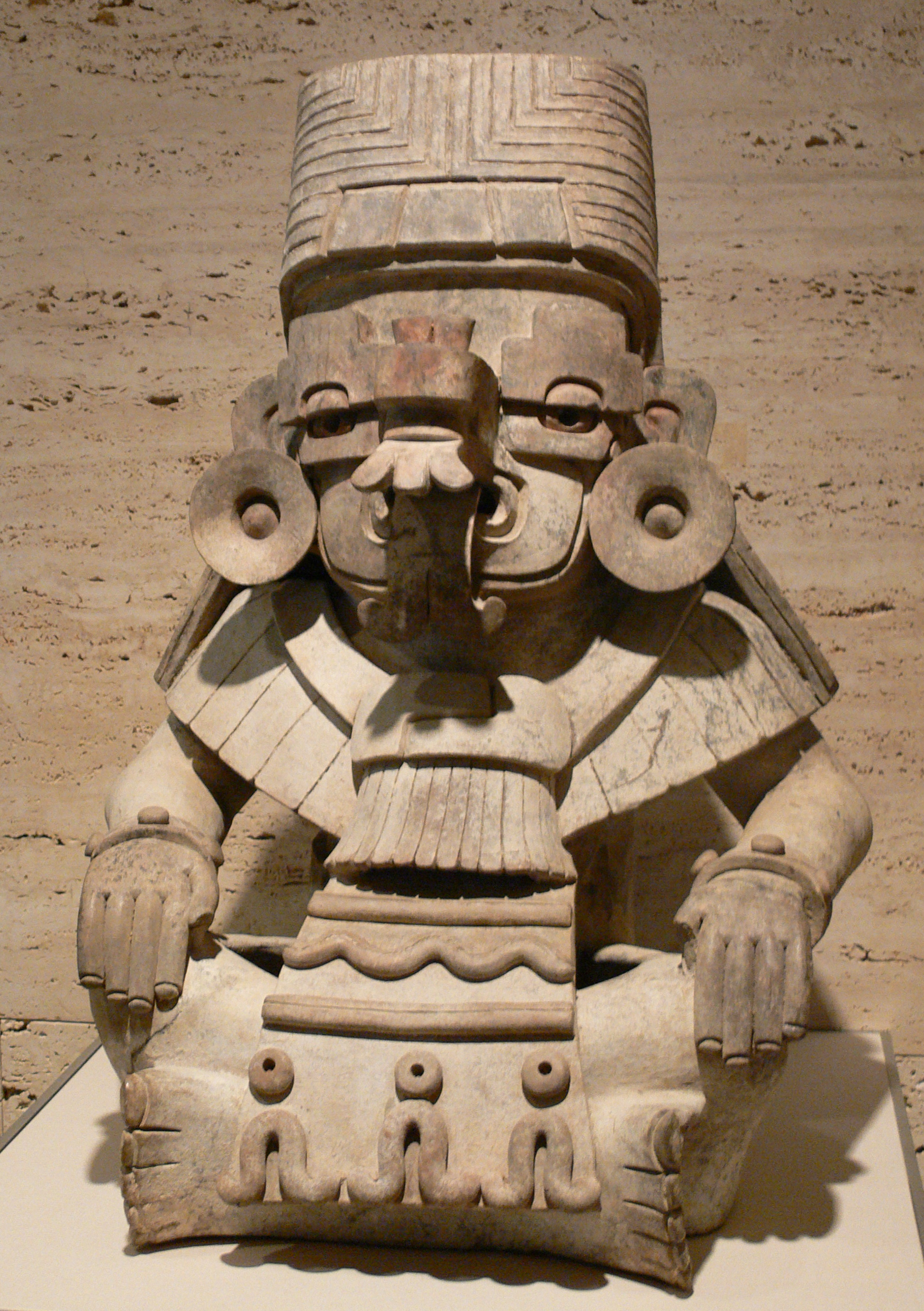 Urn in the Form of Cociyo, God of Lightning and Rain; c. 400–500; Mexico, Oaxaca, Monte Albán IIIa, Zapotec culture, Early Classic period (A.D. 250–600); Ceramic 72.4 x 53.3 x 45.7 cm Kimbell Art Museum, Fort Worth, Texas; AP 1985.09